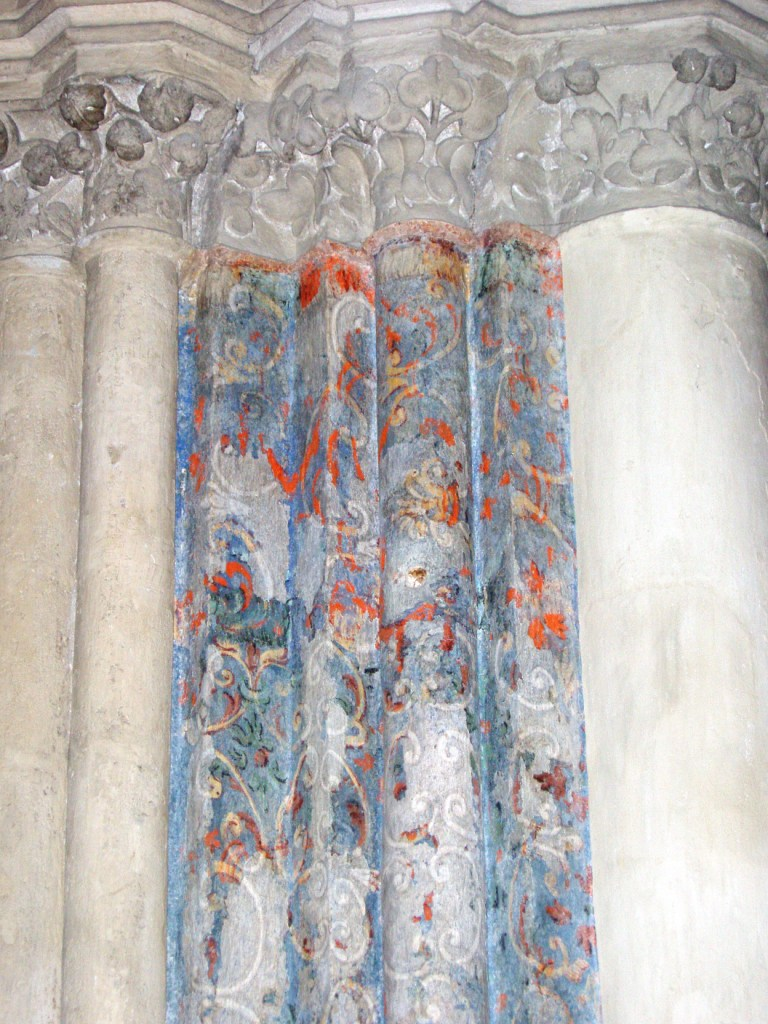 Crypt of the Michaelerkirche in Vienna